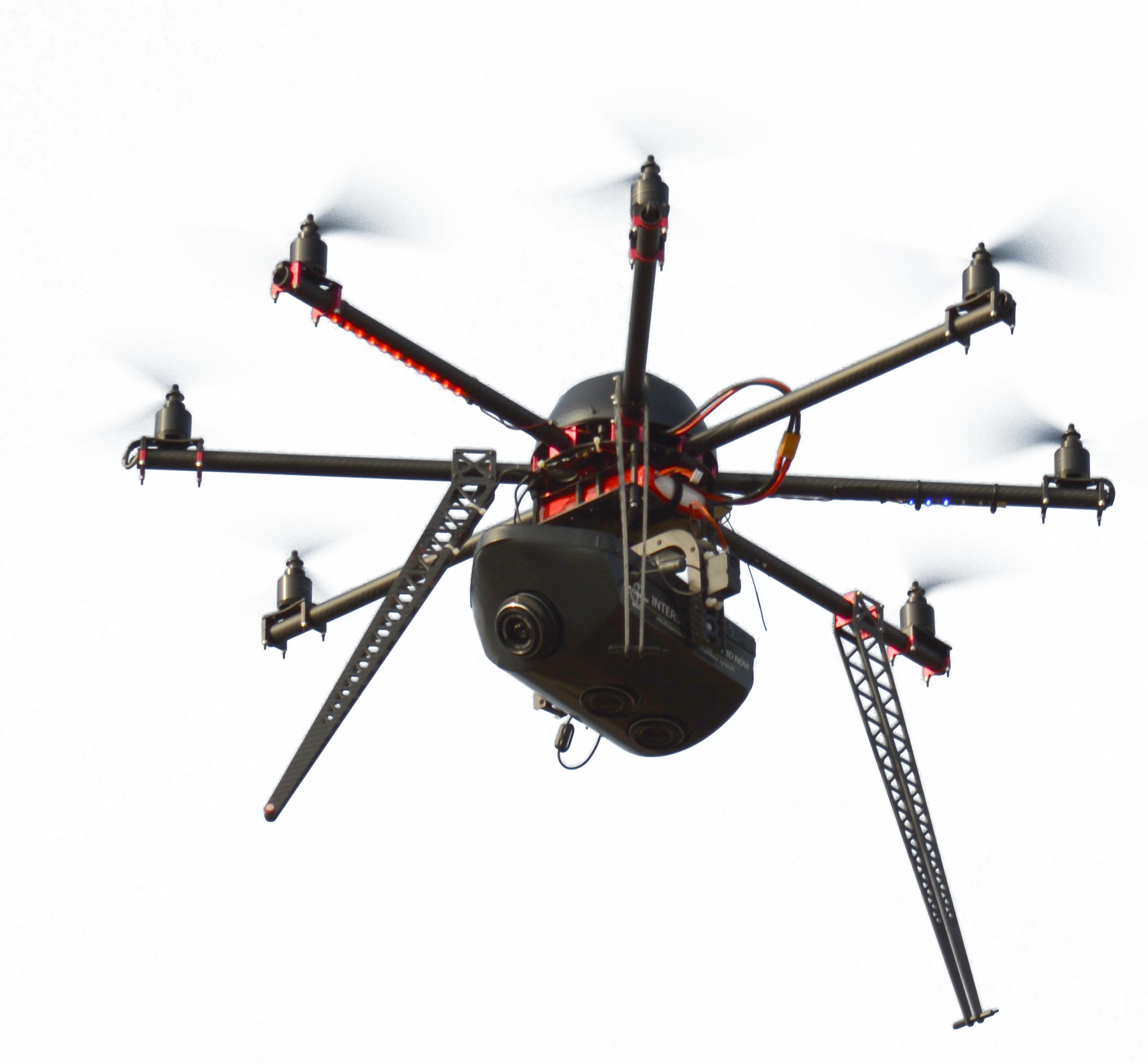 Interspect Unmanned Aerial Vehicle for aerial photogrammetry